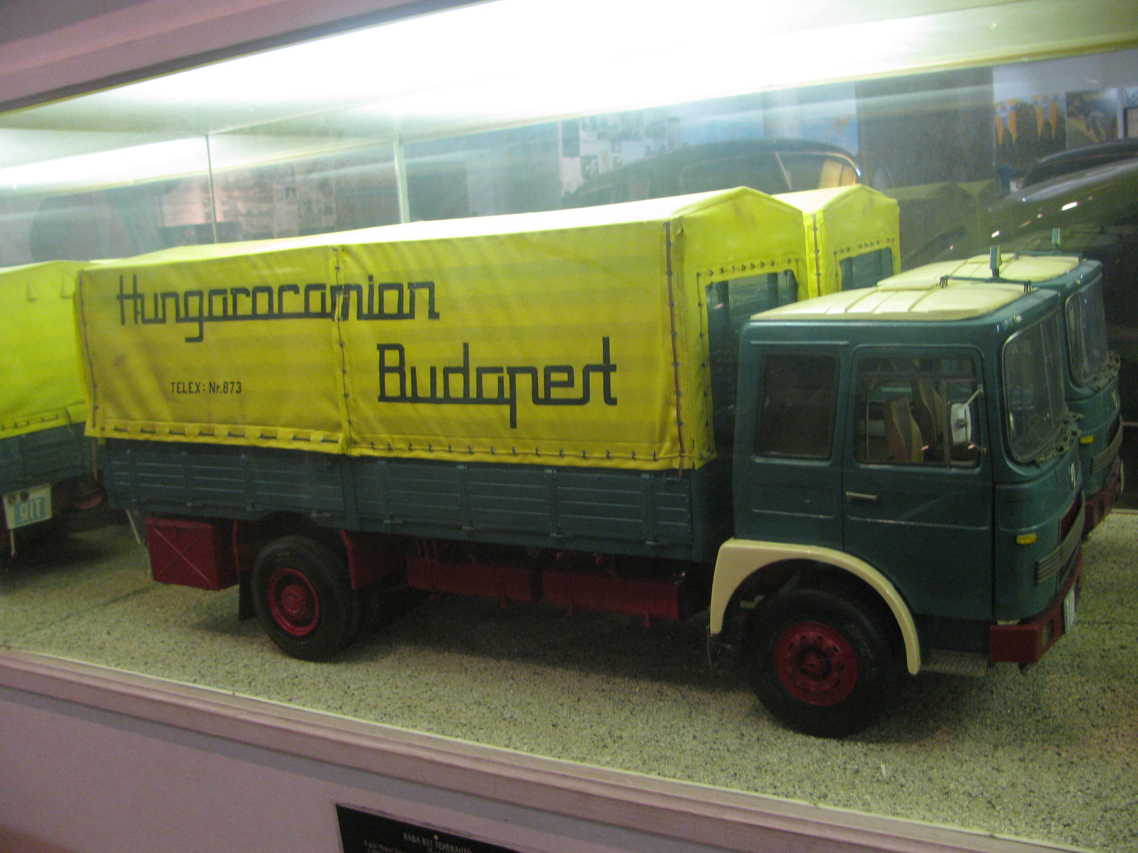 A model illustrating of Rába 831 lorry. The vehicles were produced by Magyar Vagon- és Gépgyár in Győr from 1970. The vehicles were also produced for export. The main domestic customer was Hungarocamion transport company.